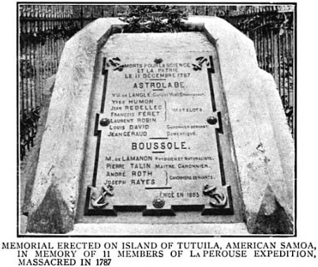 Memorial erected on Island of Tutuila, American Samoa, in memory of 11 members of La Perouse Expedition, massacred in 1787From Frank Coffee's 1920 book Forty Years On the Pacific